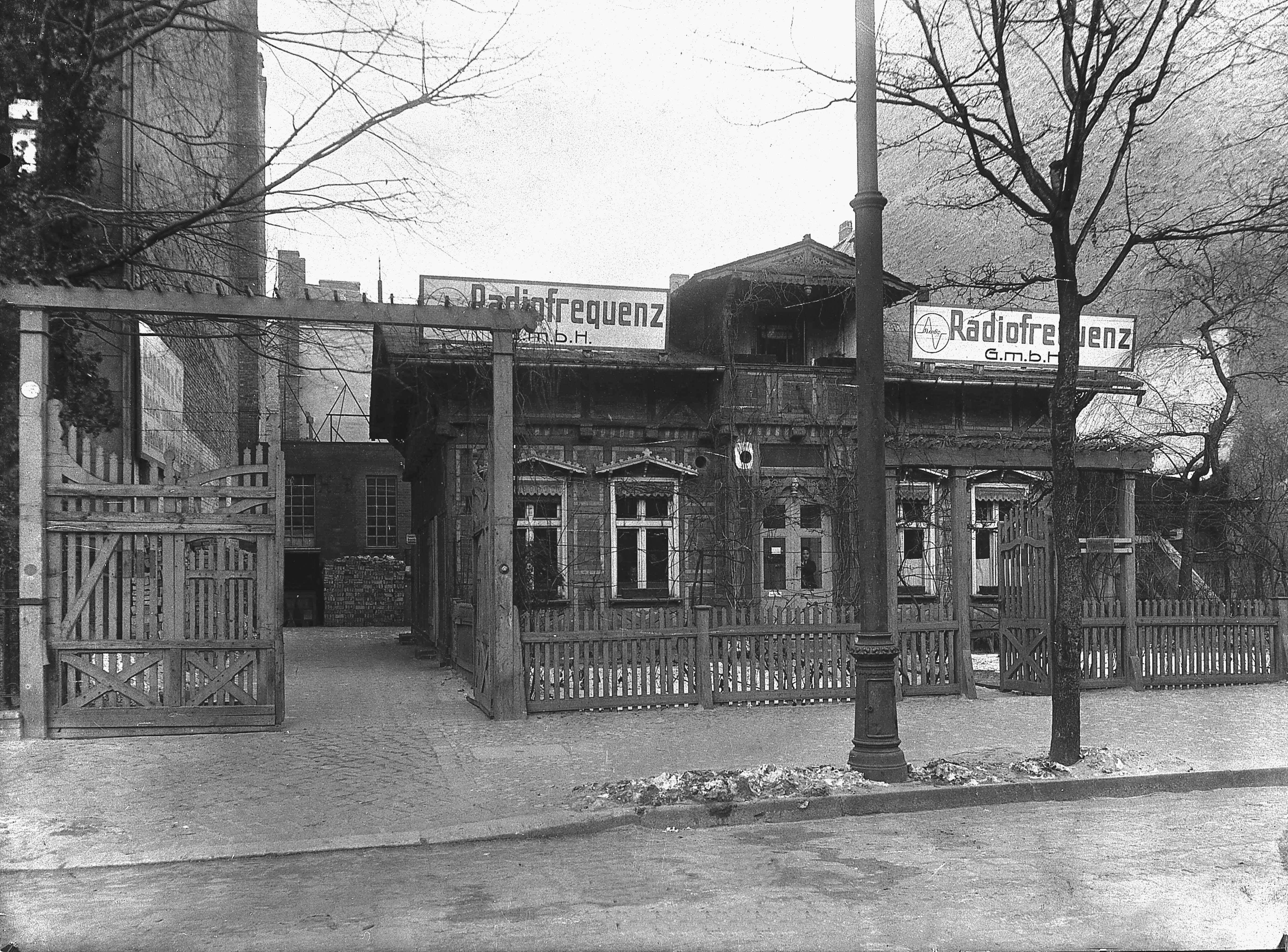 Loewe headoffice in Berlin-Friedenau, Niedstraße 5.